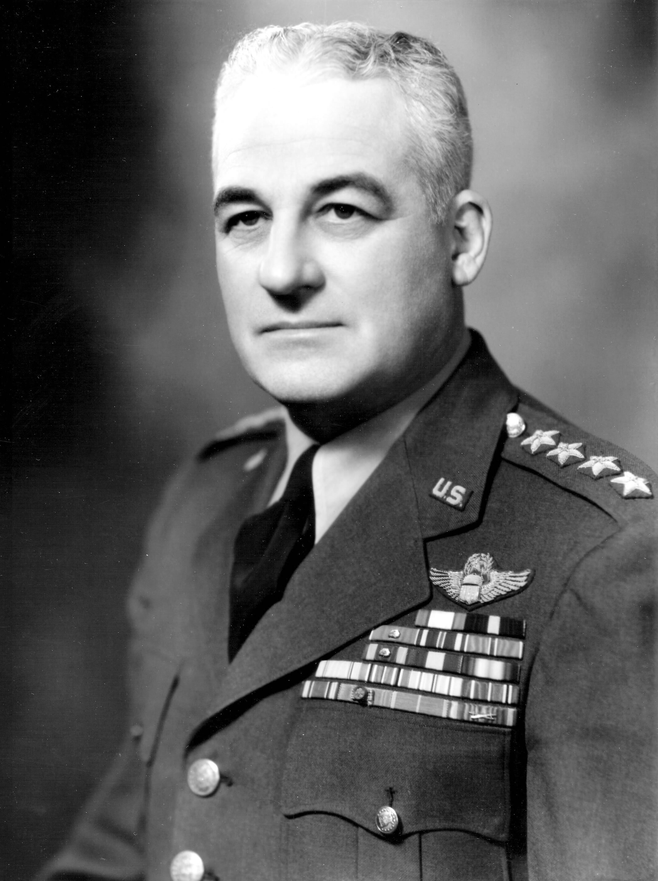 General Nathan Farragut Twining See also: Image:Nathan Twining 02.jpg